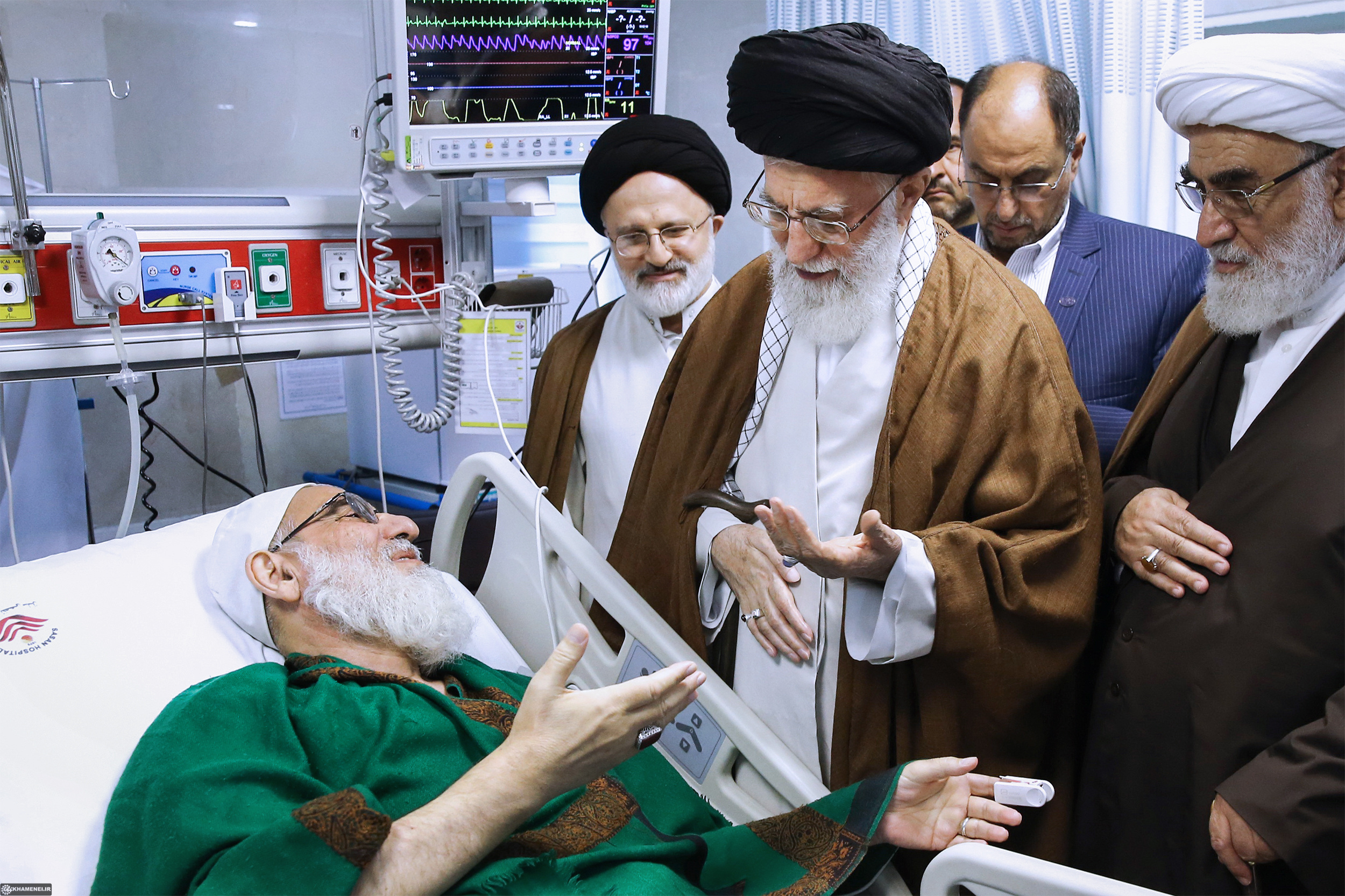 Mahmoud Hashemi Shahroudi